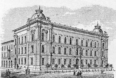 The building of the Academy of Fine Arts in Kraków, Poland